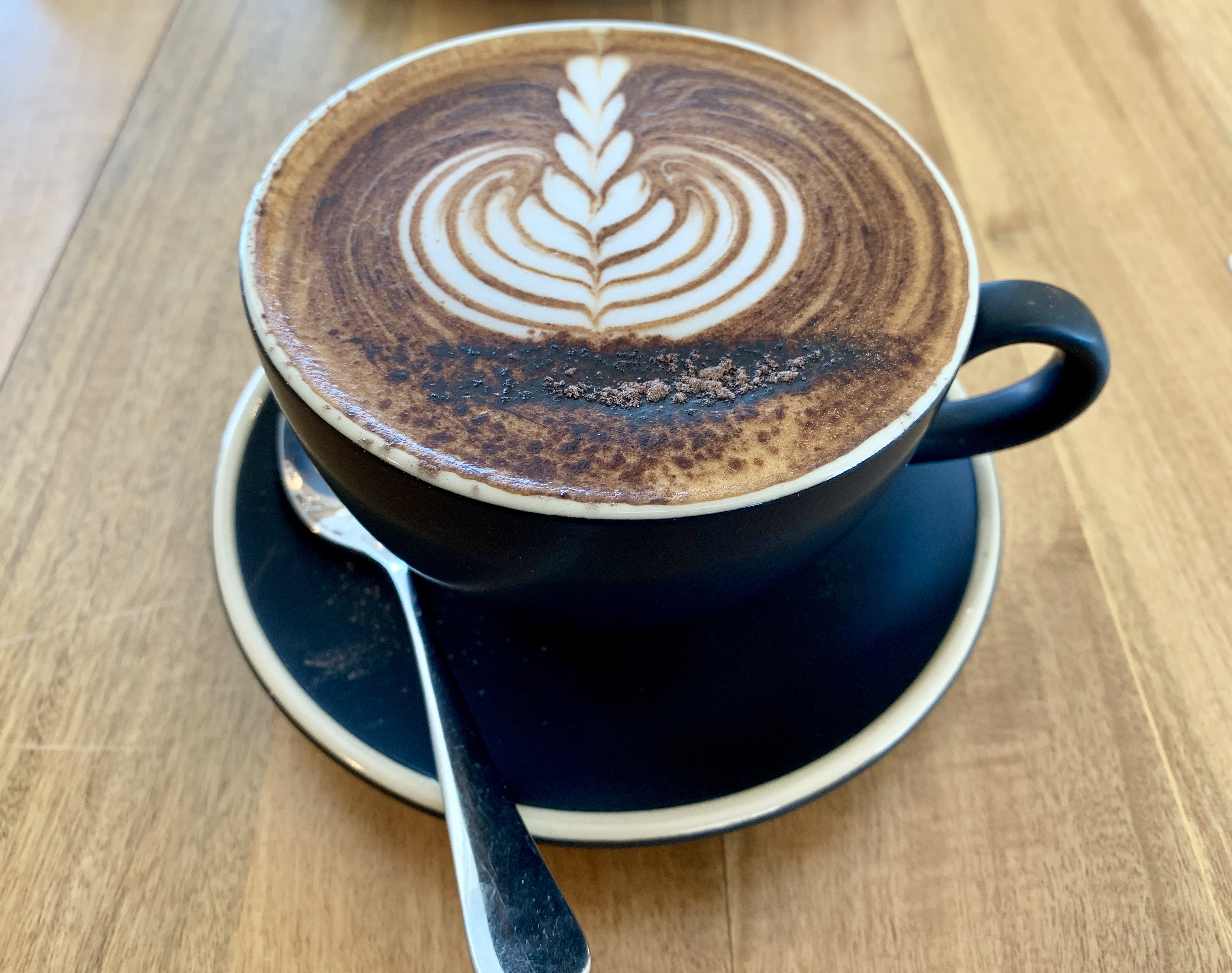 Rosetta latte art, Brisbane, Queensland